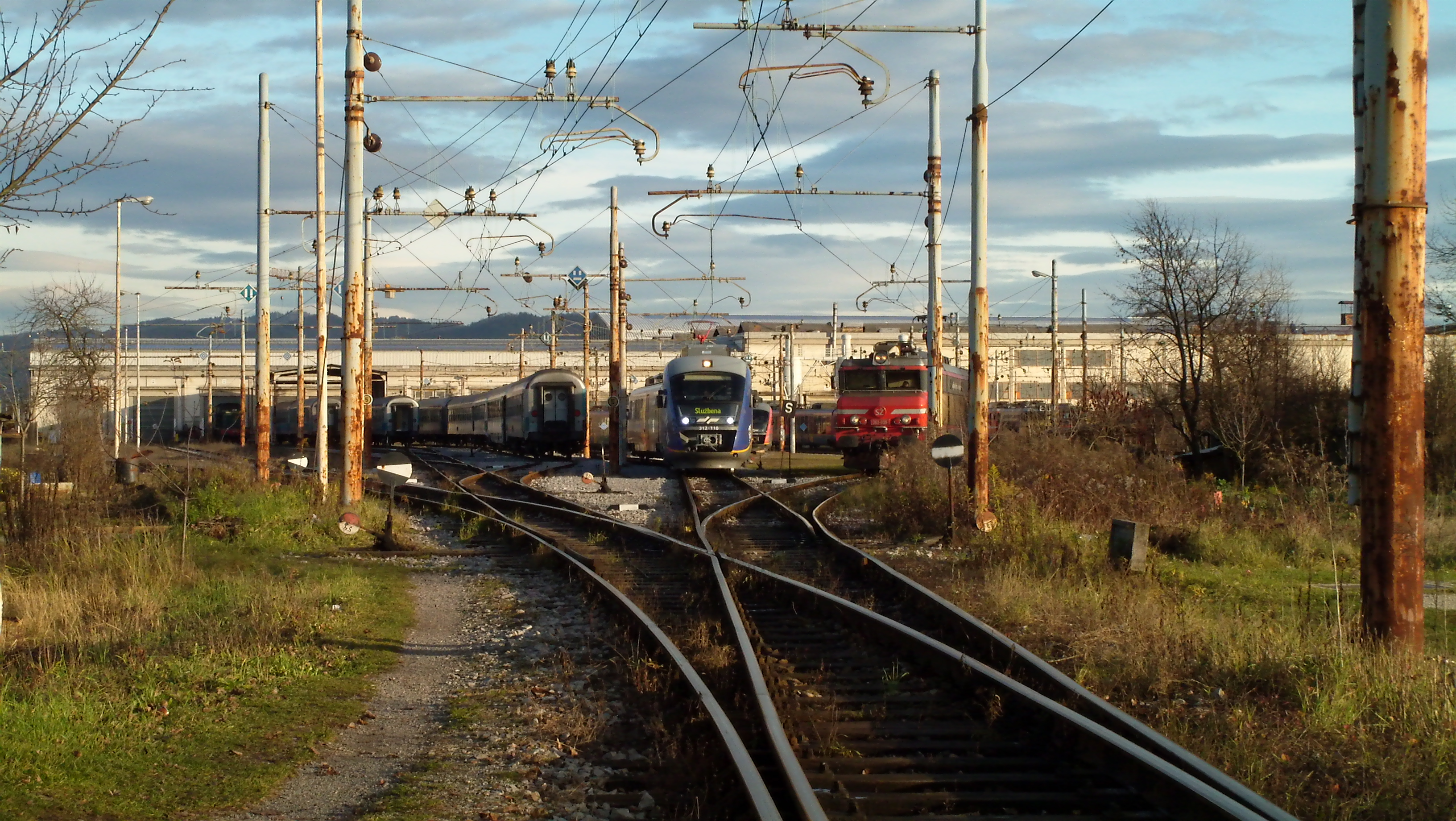 Picture of trains in Ljubljana-Moste, made with Praktica DVC 10.1 HDMI camcorder.